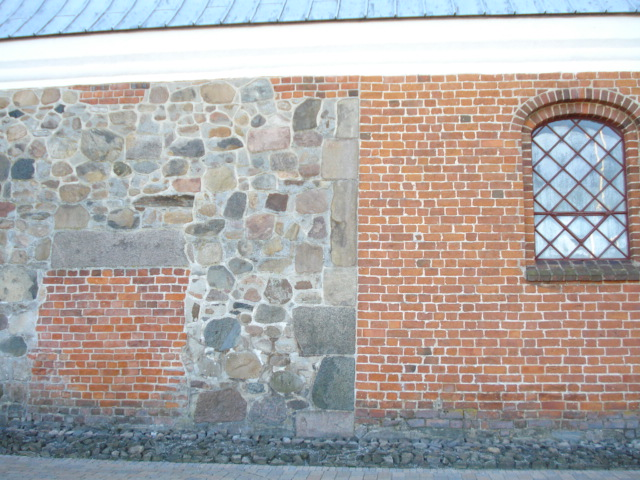 The northern wall on the church of Hornslet, Jutland, Denmark